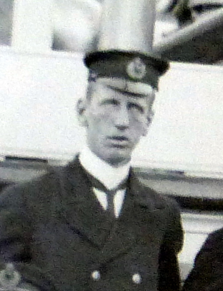 John King Davis (1884–1967), 1st officer and later ship captain on the Nimrod-Expedition (1907–1909)